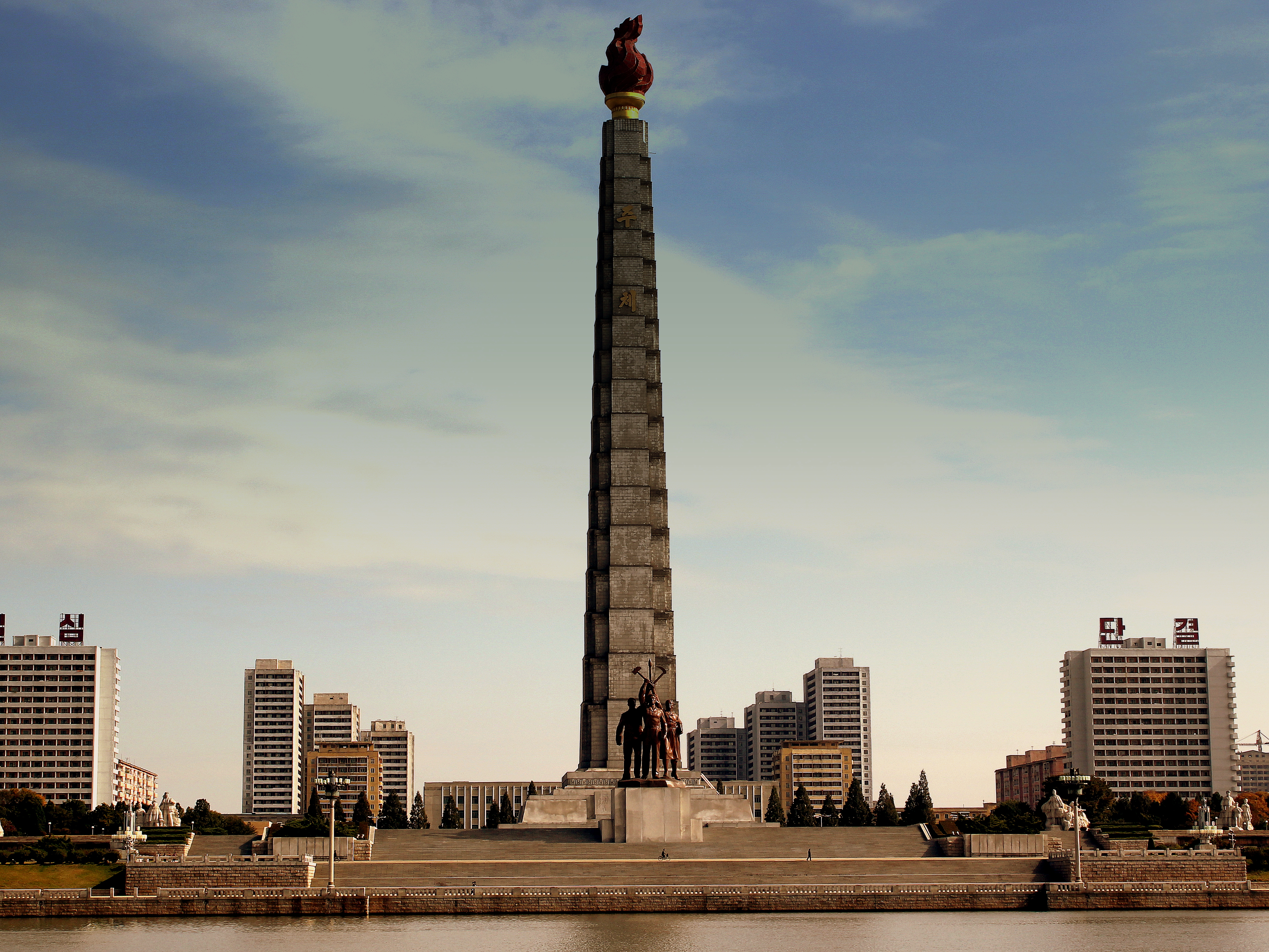 TOWER OF THE JUCHE IDEA PYONGYANG DPR KOREA OCT 2012